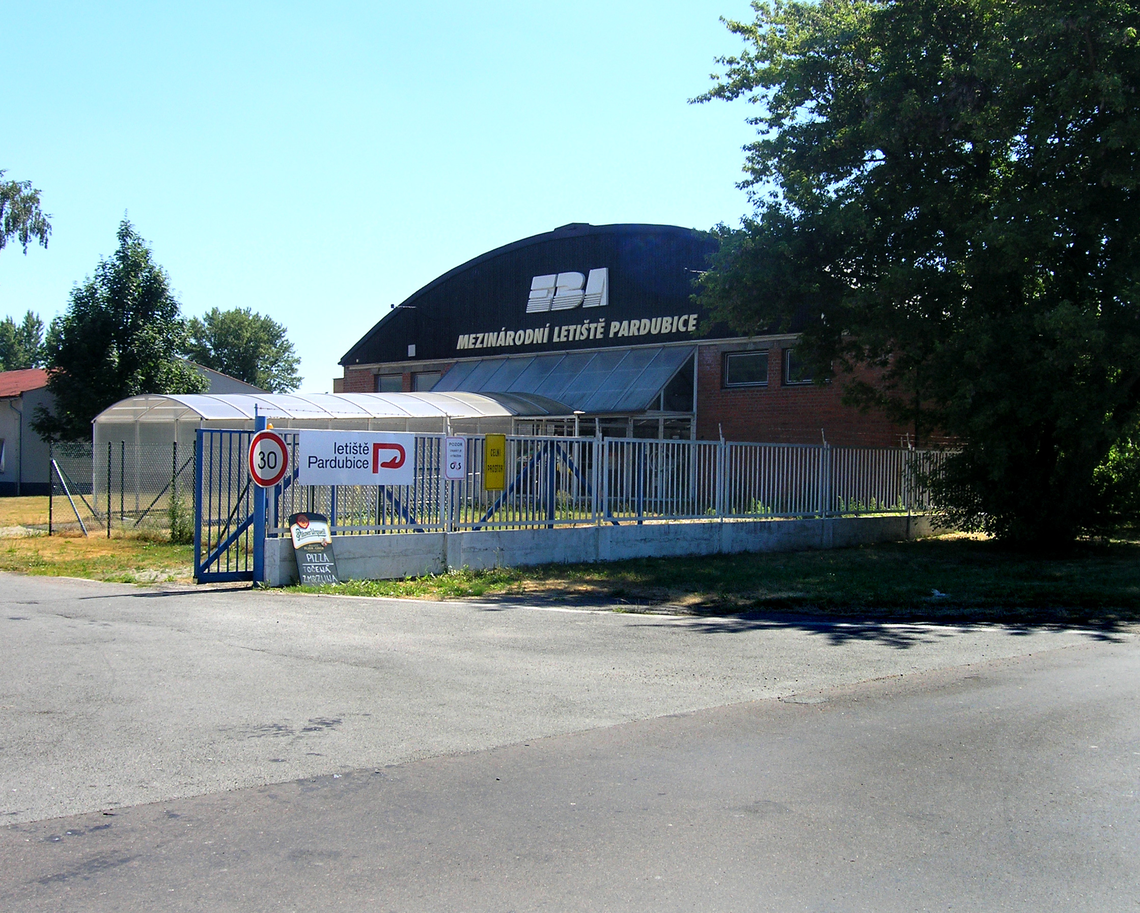 Departure lounge of Pardubice airport in Pardubice, Czech Republic